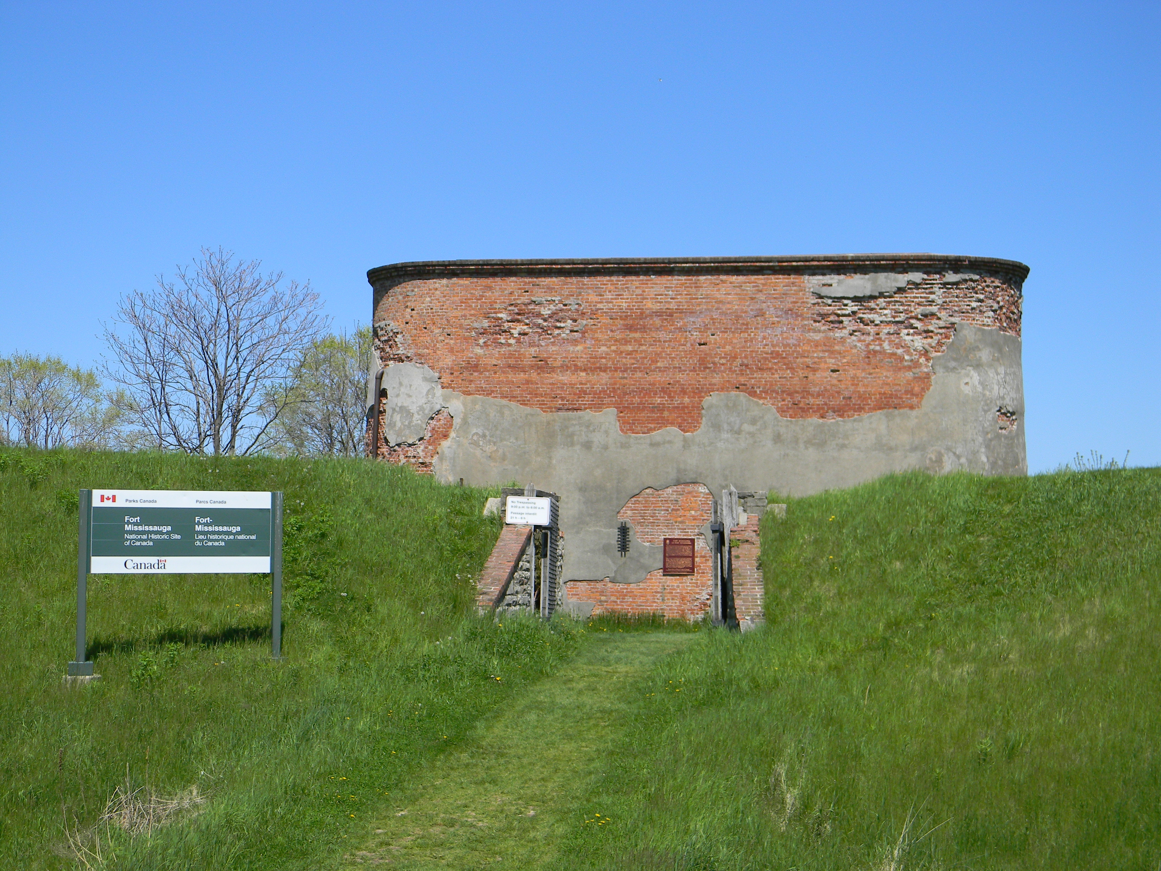 Fort Mississauga, Cultural heritage monuments in Niagara-on-the-Lake, Front entrance